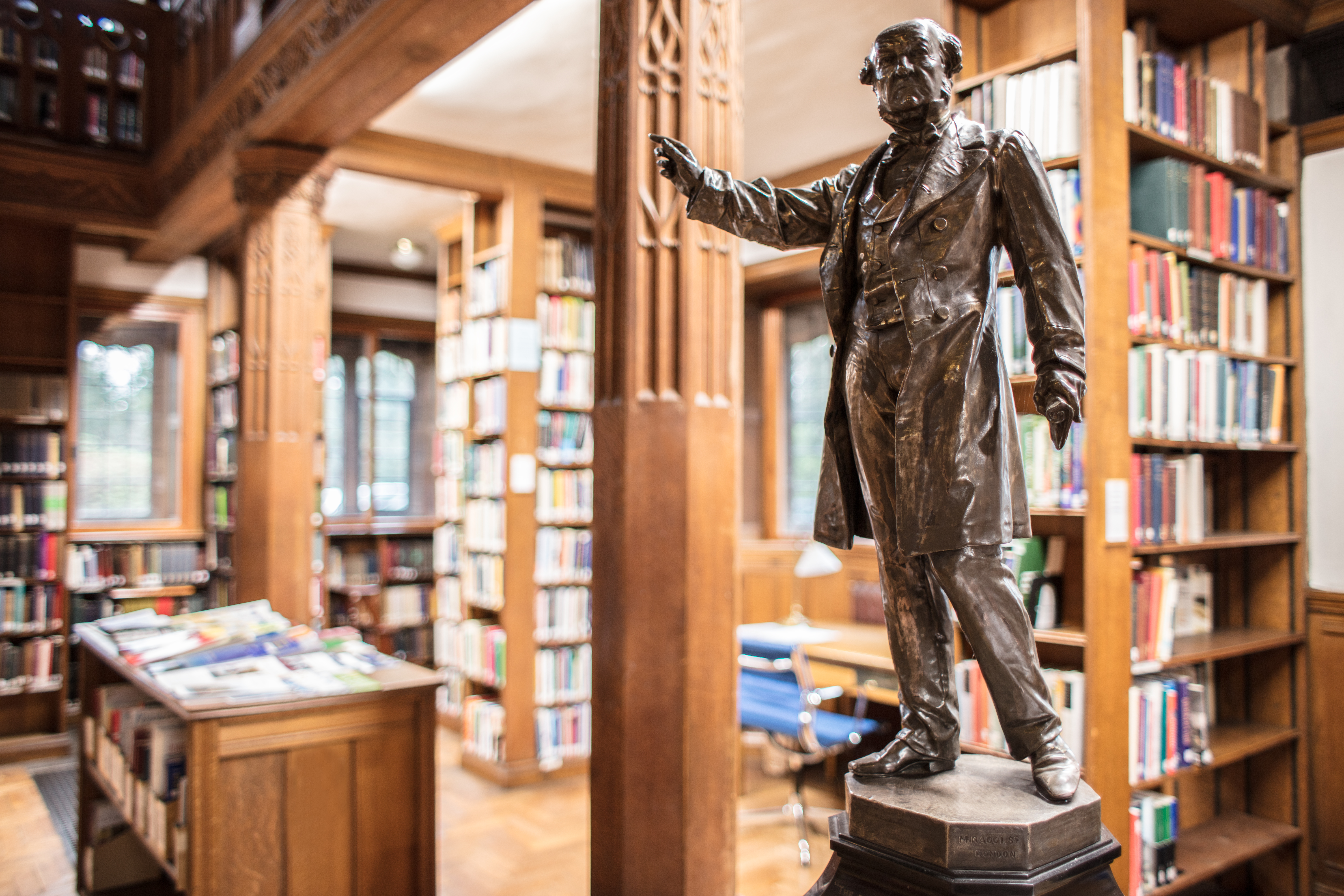 Here is a photograph of a statue of Gladstone. Located in Gladstone's Library, Hawarden, Wales, UK. (taken with kind permission of the administration)